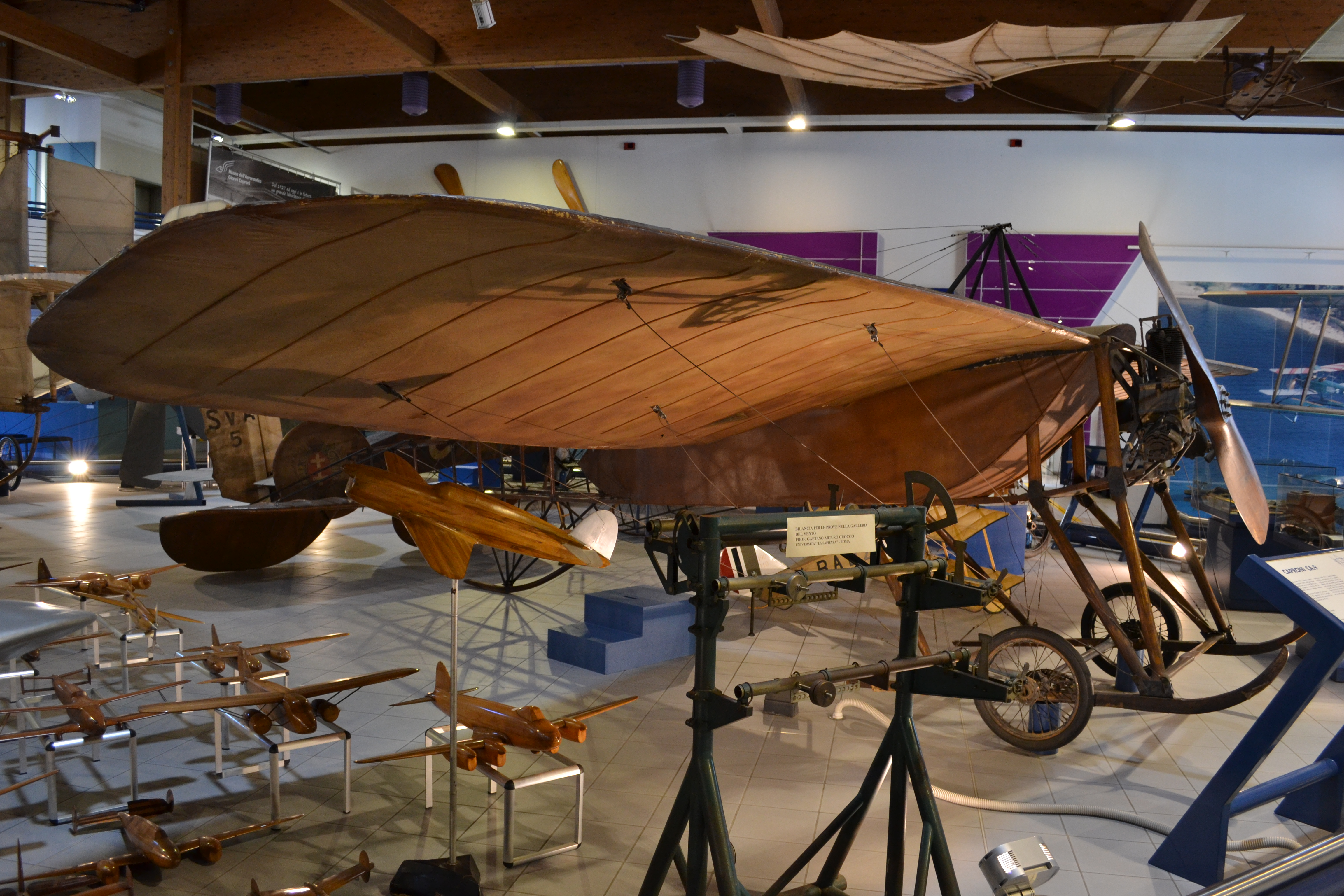 The Caproni Ca.9 pioneer aircraft on display at the museo dell'aeronautica Gianni Caproni.